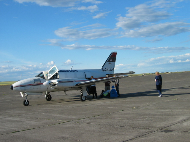 Ameriflight on the Eastern Oregon Regional Airport (PDT) in Pendleton, Oregon.